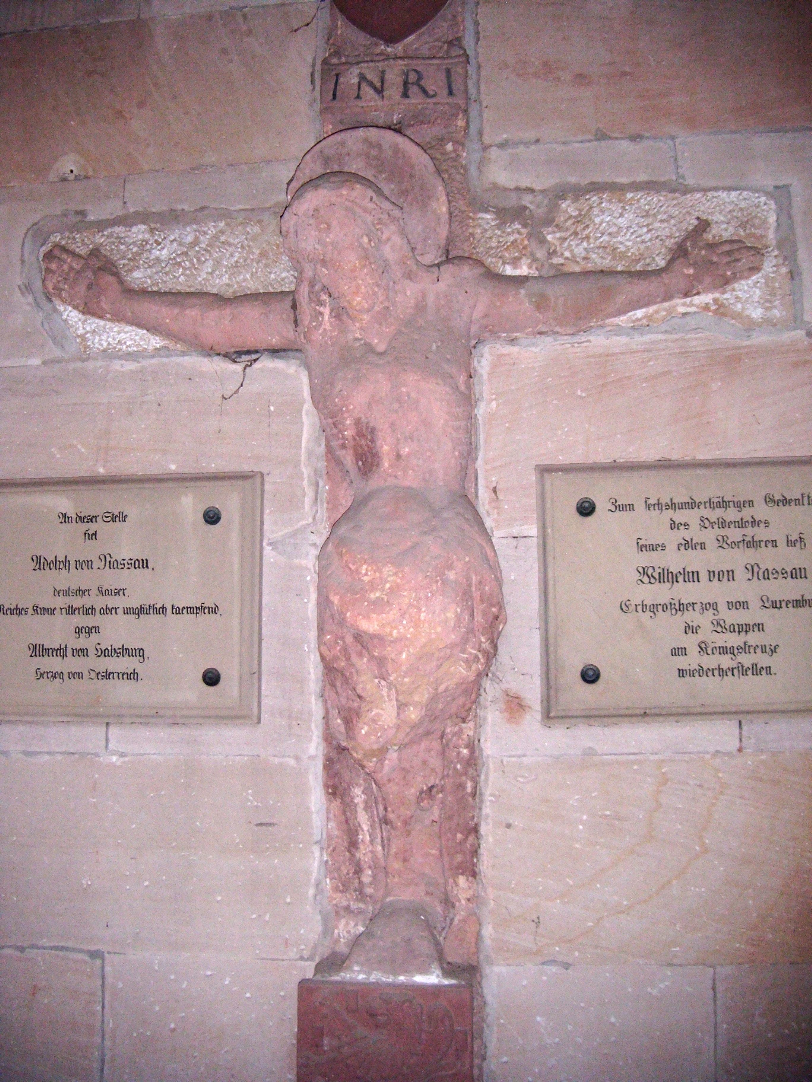 Königskreuz Göllheim (um 1309)